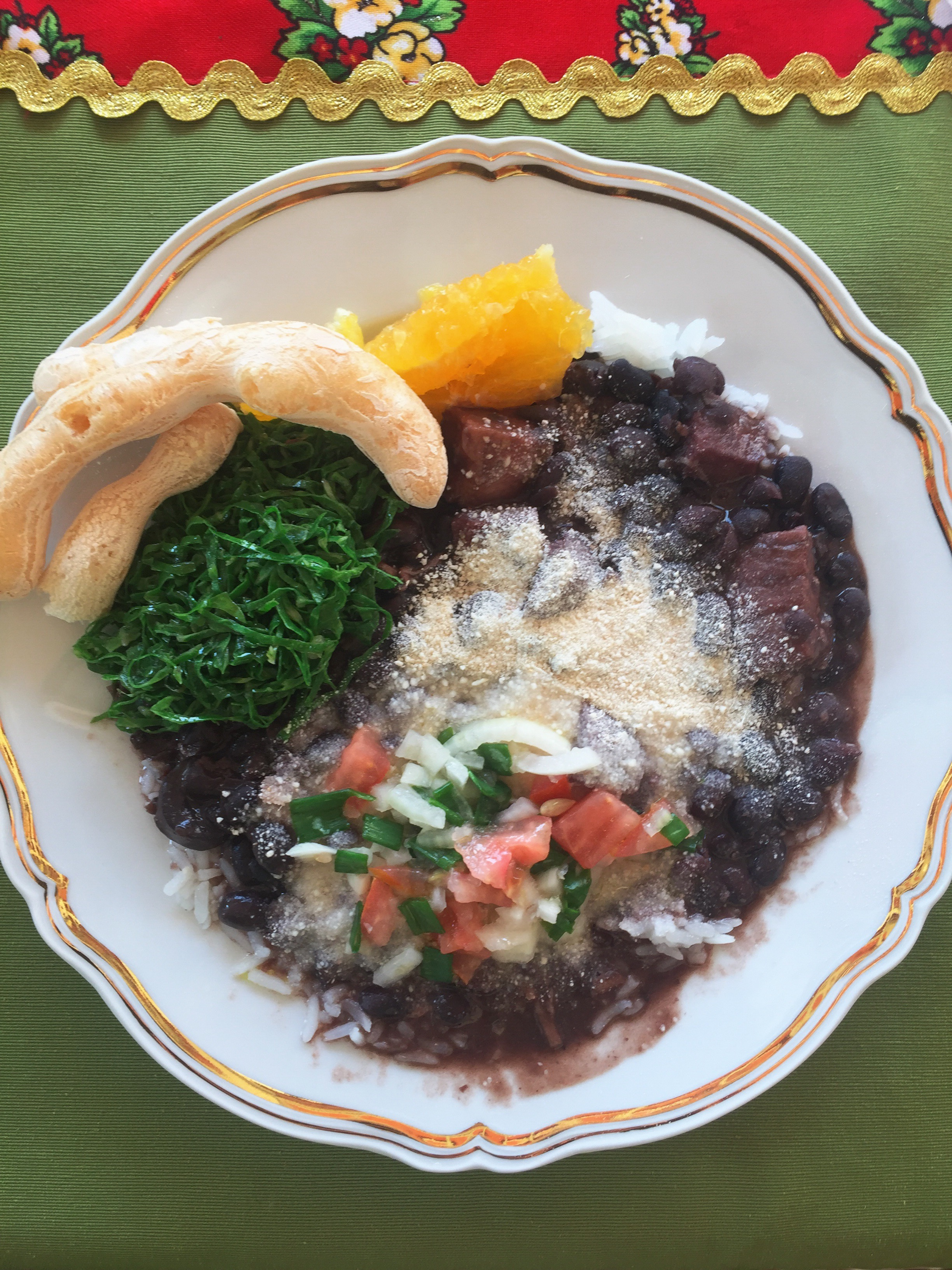 Feijoada with rice, fried kale, cassava starch crisps (biscoito de polvilho), cassava flour (farinha), and a mix of olive oil, alcohol vinegar, tomatoes, onions and sometimes bell peppers called vinagrete.